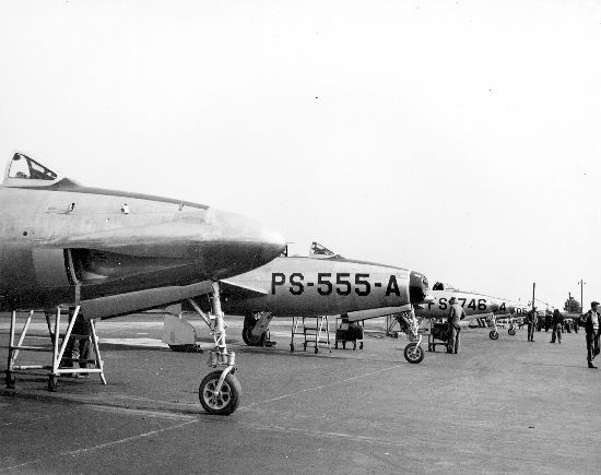 A lineup of Republic Thunderjets. Nearest the camera is the XP-84A; others are YP-84As.